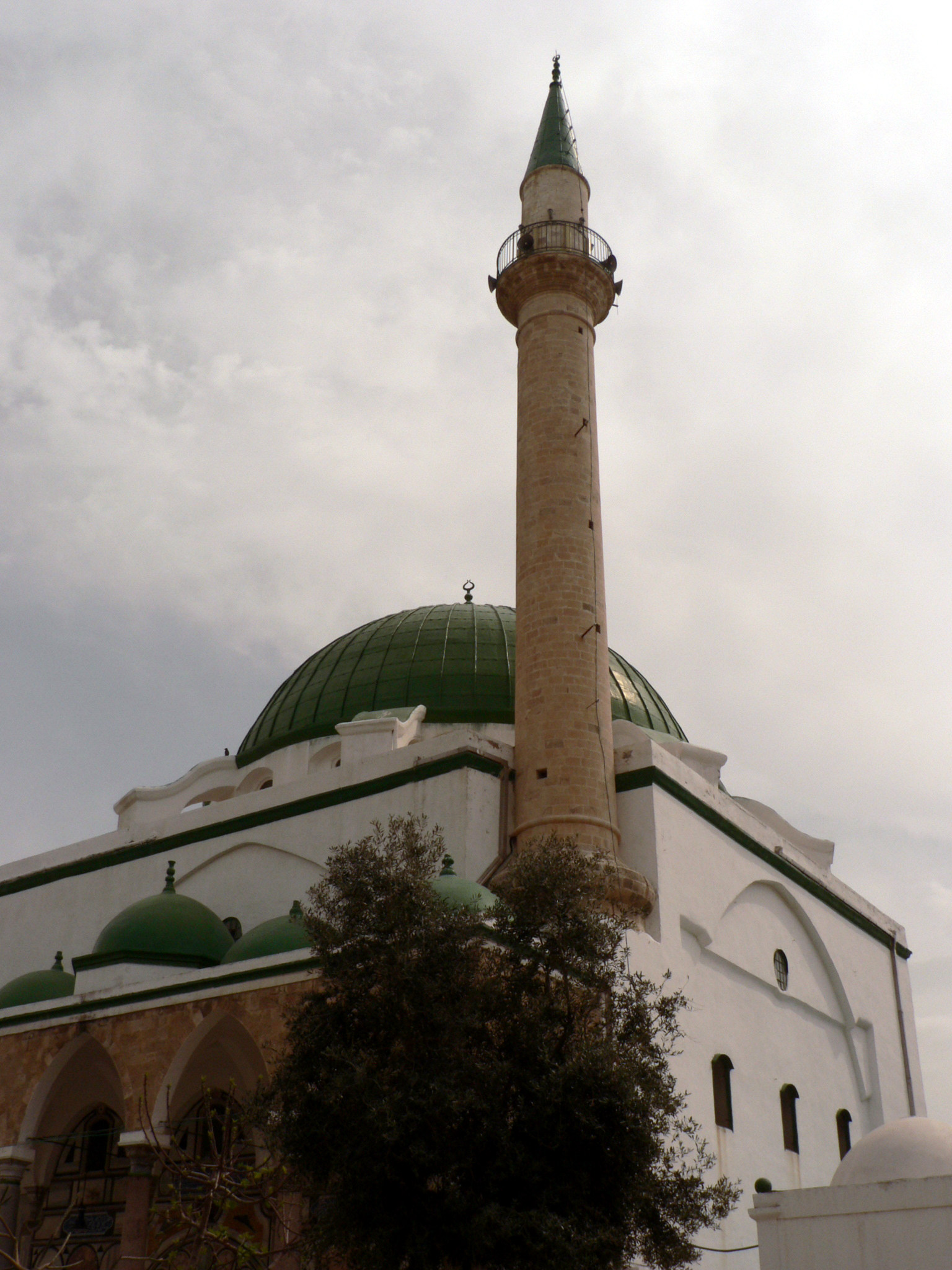 Mosquee Al Jazzar, Acre Old City